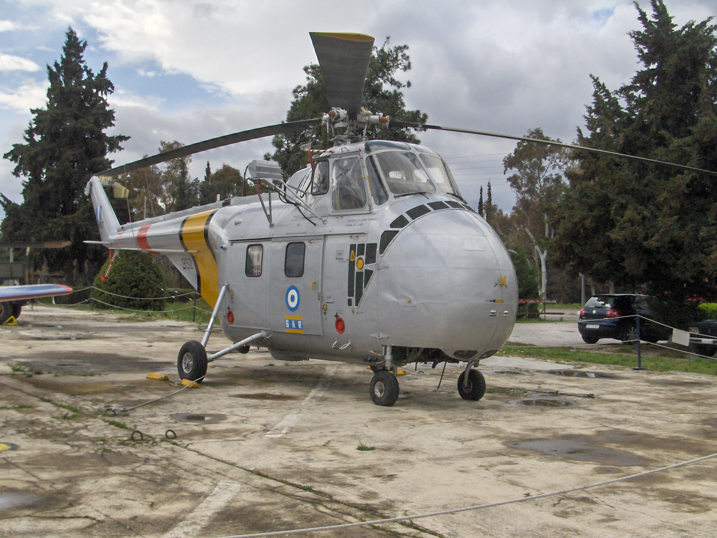 Exhibit at the Hellenic Air Force Museum at Dekelia (Tatoi), Athens, Greece. Sikorsky UH-19D Chickasaw